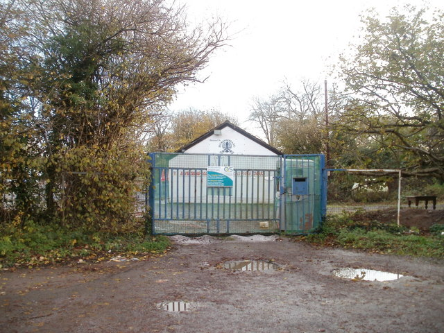 Entrance gates to Ely Rangers AFC ground, Station Road East, Wenvoe